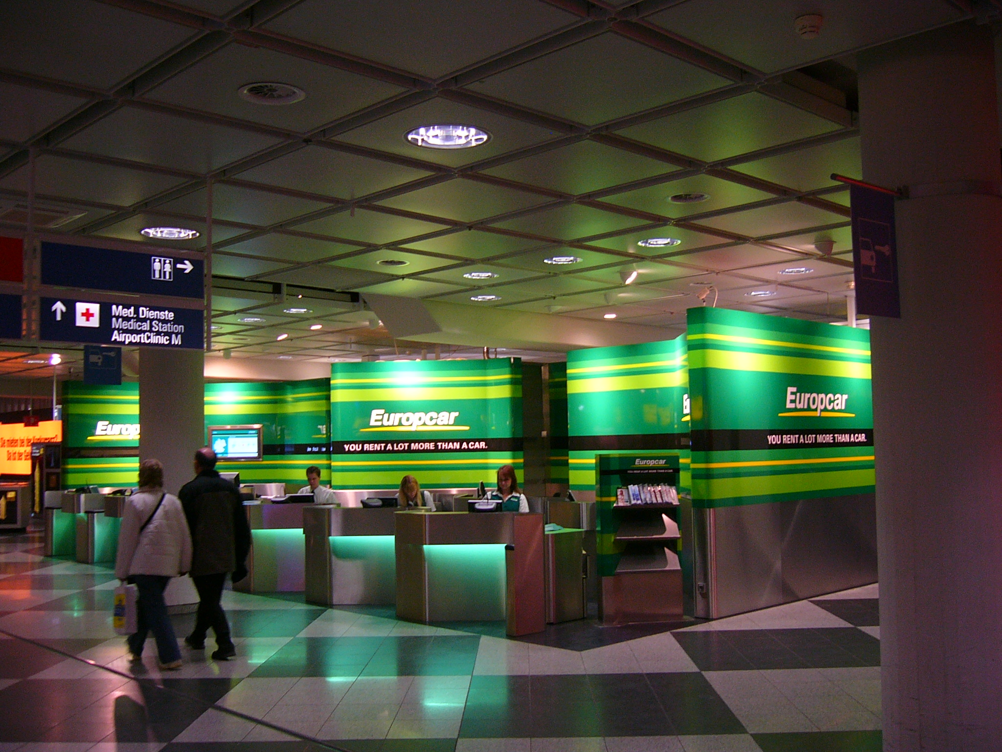 Service counter of Europcar at Munich Airport.